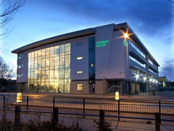 Aylesbury College, Aylesbury, Buckinghamshire, UK - Night